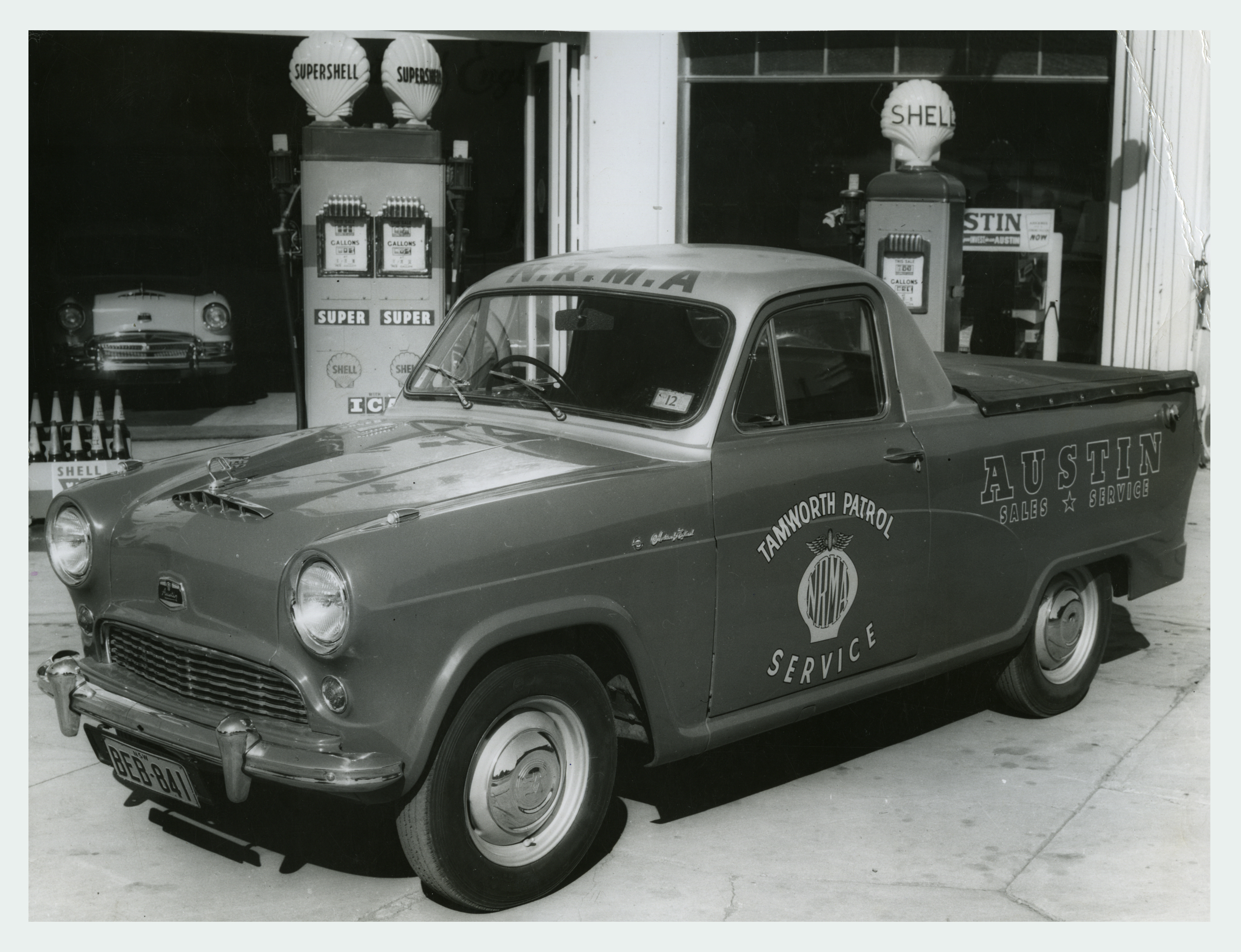 Austin A50 Coupe Utility, as designed and built in Australia. Tamworth (CSC) Country Service Centre - RMA Drivers seat takes a look back at the the people , places and moments, that have helped shape and define NRMA Motoring and services , into a Motoring Organisation with over 2.2 million members. Here is also the link for you to enjoy of NRMA history through the years, via a video based presentation